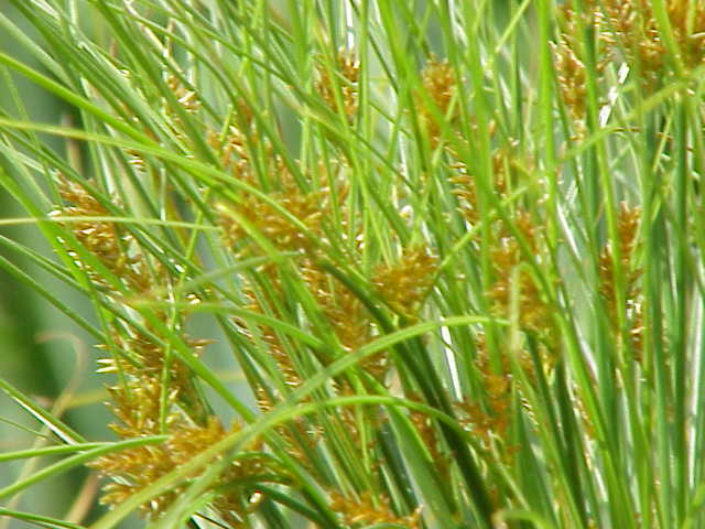 Species: Cyperus papyrus Family: Cyperaceae Image No. 6